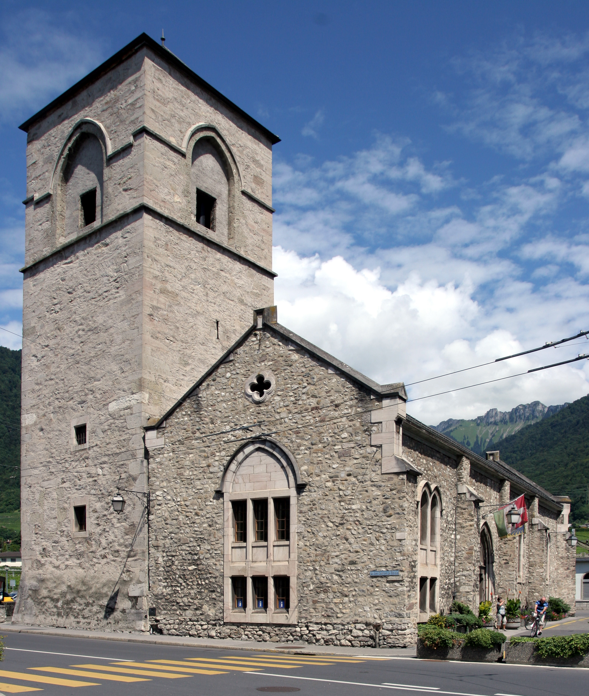 The town hall (Maison de Ville) of Villeneuve VD, Switzerland.